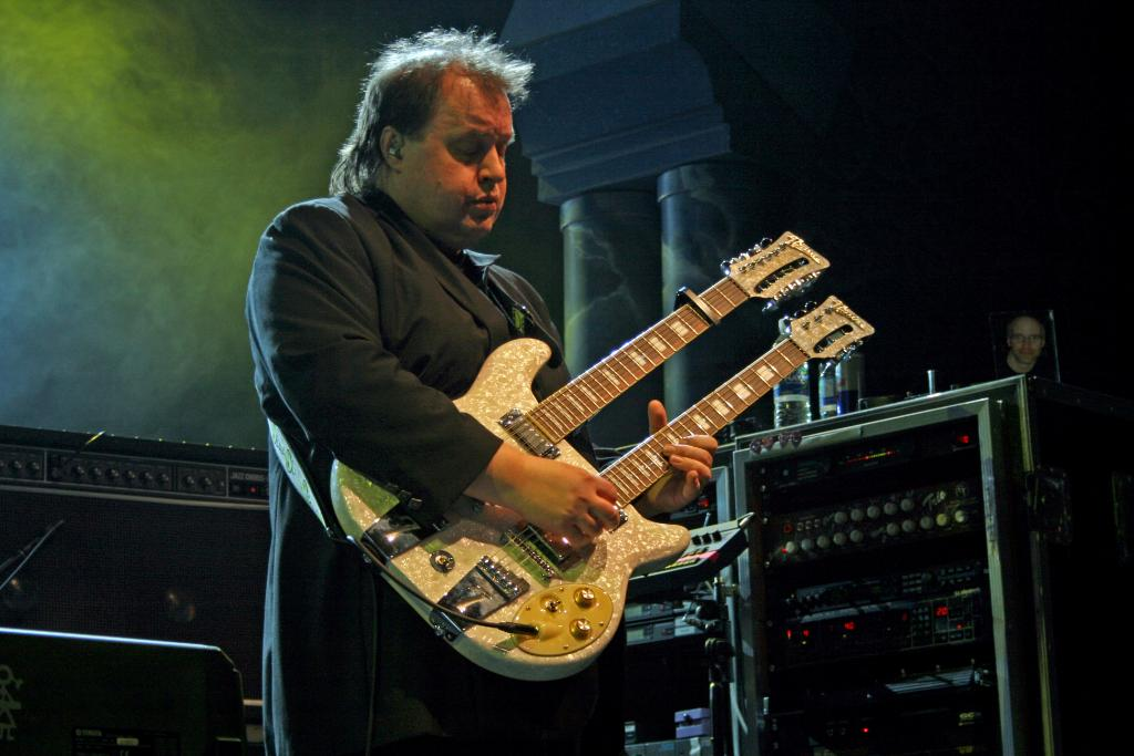 Steve Rothery onstage with Marillion at Marillion's weekend festival in Montreal, Canada - April 2009. Italia guitar [1]